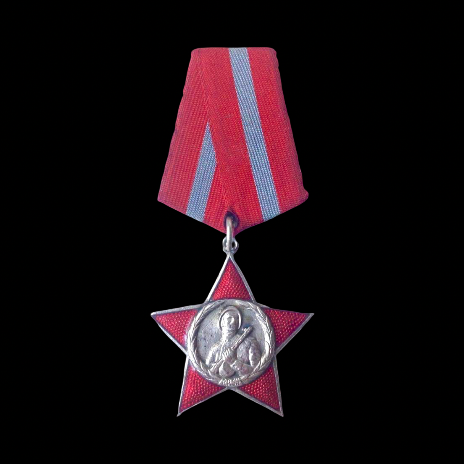 Albanian State "Order of the Red Star".